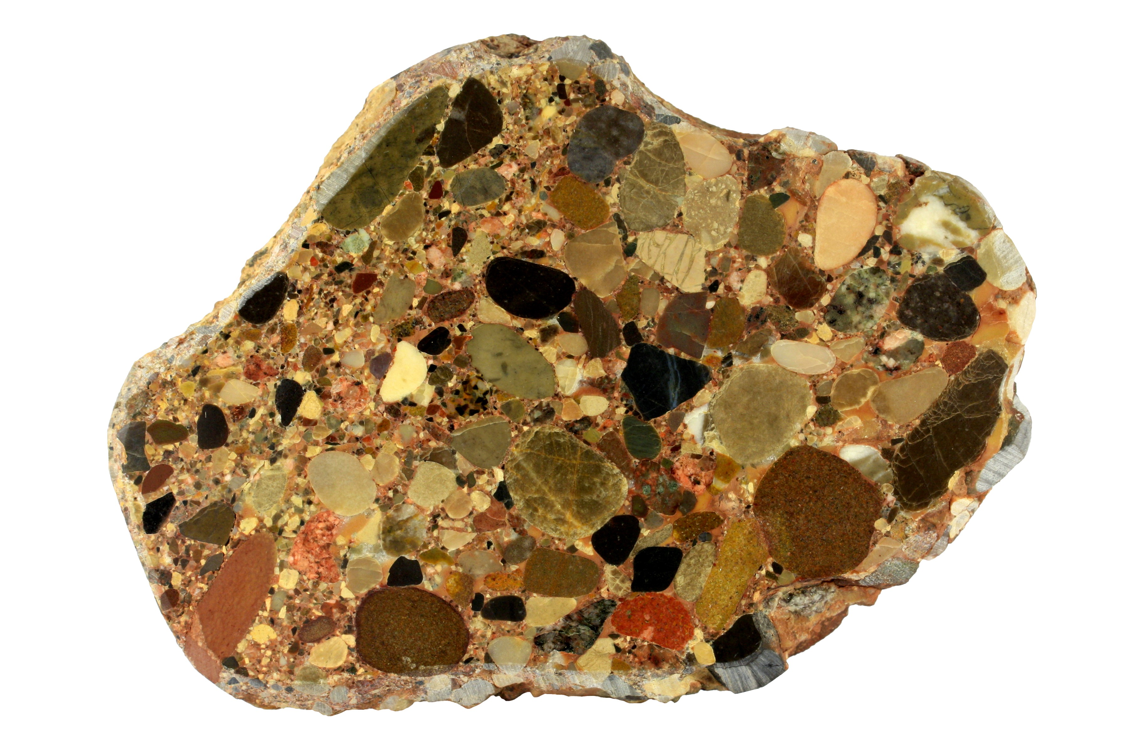 conglomerate variety puddingstone. The width of the sample is 9 cm. Additional information from the source: [2]